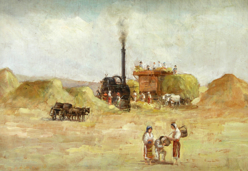 Ludovic Bassarab (1868-1933) - Threshing, signed at bottom left in yellow, oil on plywood, 35x25cm.